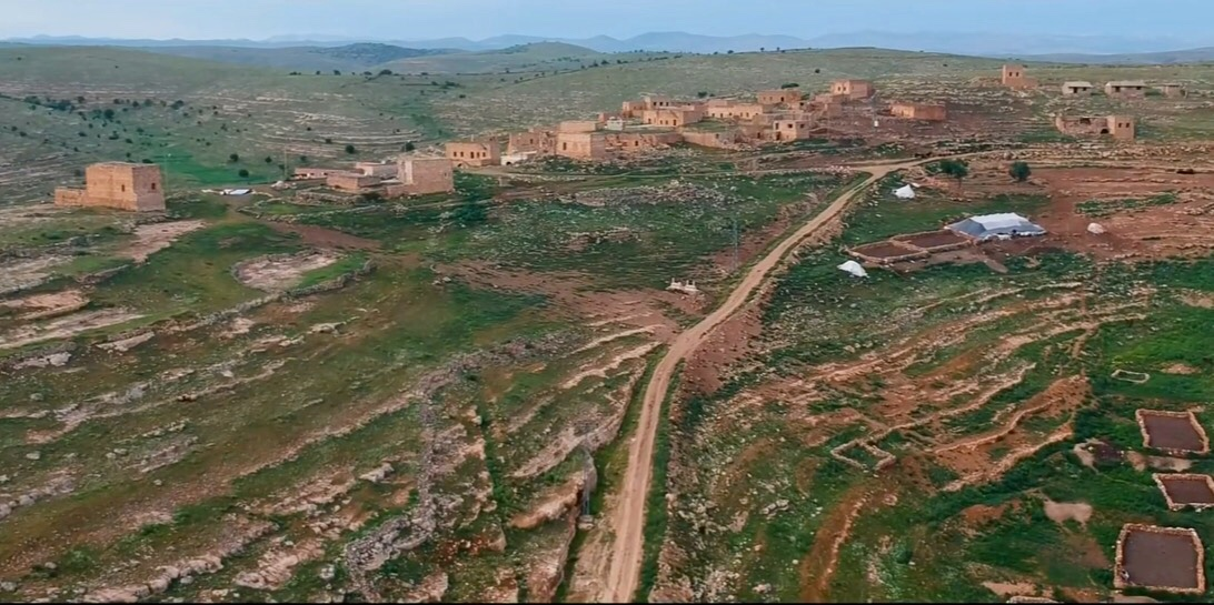 Yazidi village Taqa in Turkey